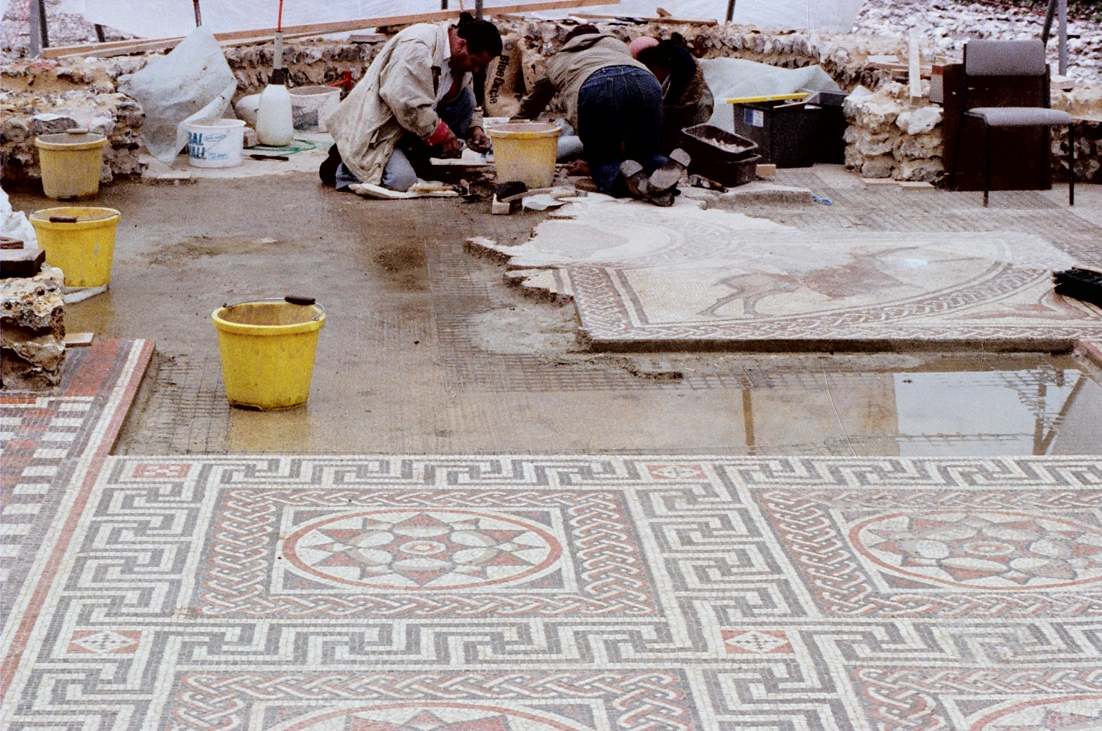 Littlecote Roman Mosaic during restoration 1979; digitized version of original Kodacolor negative